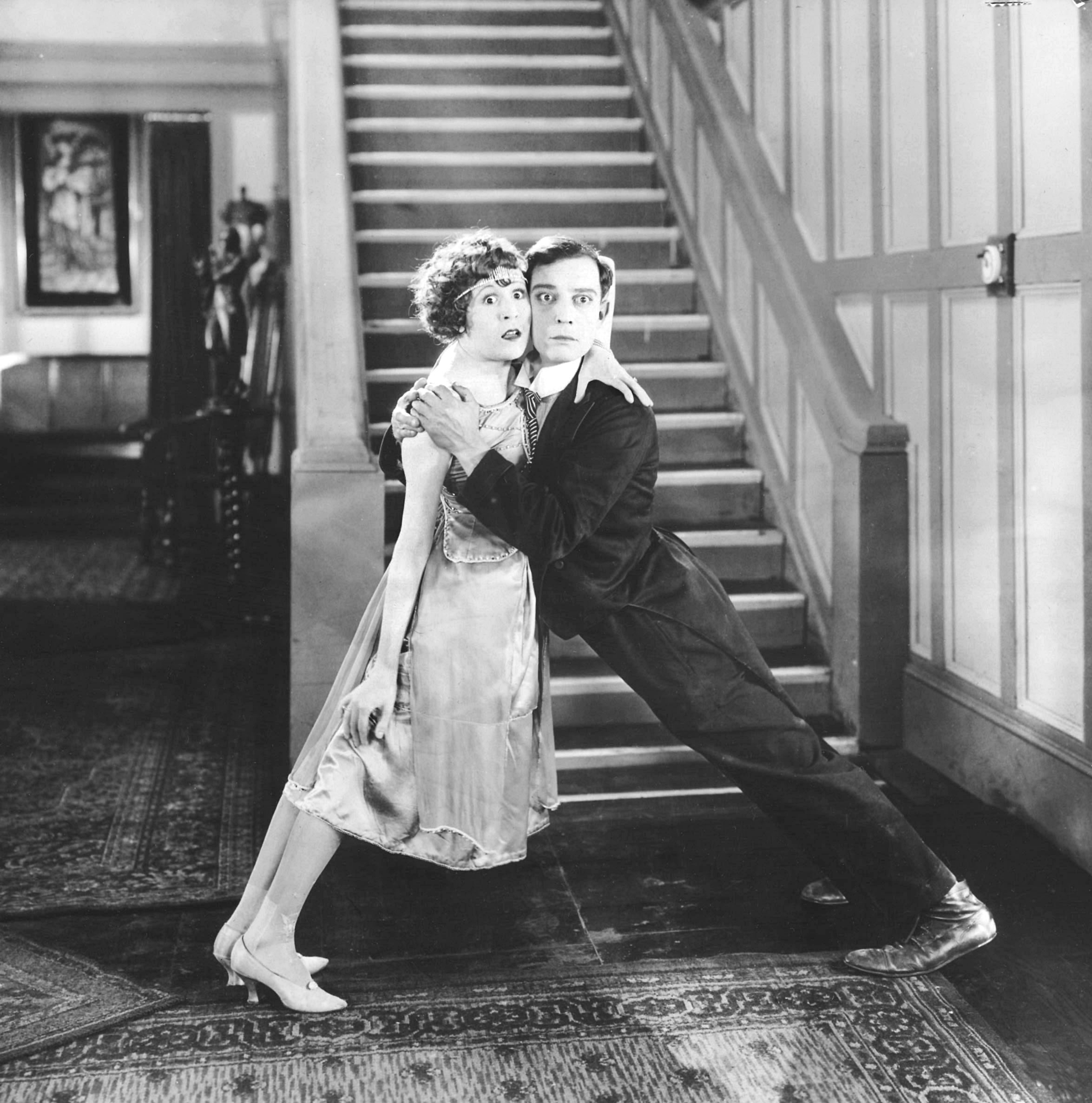 Virginia Fox and Buster Keaton prop each other up in The Electric House (1922).